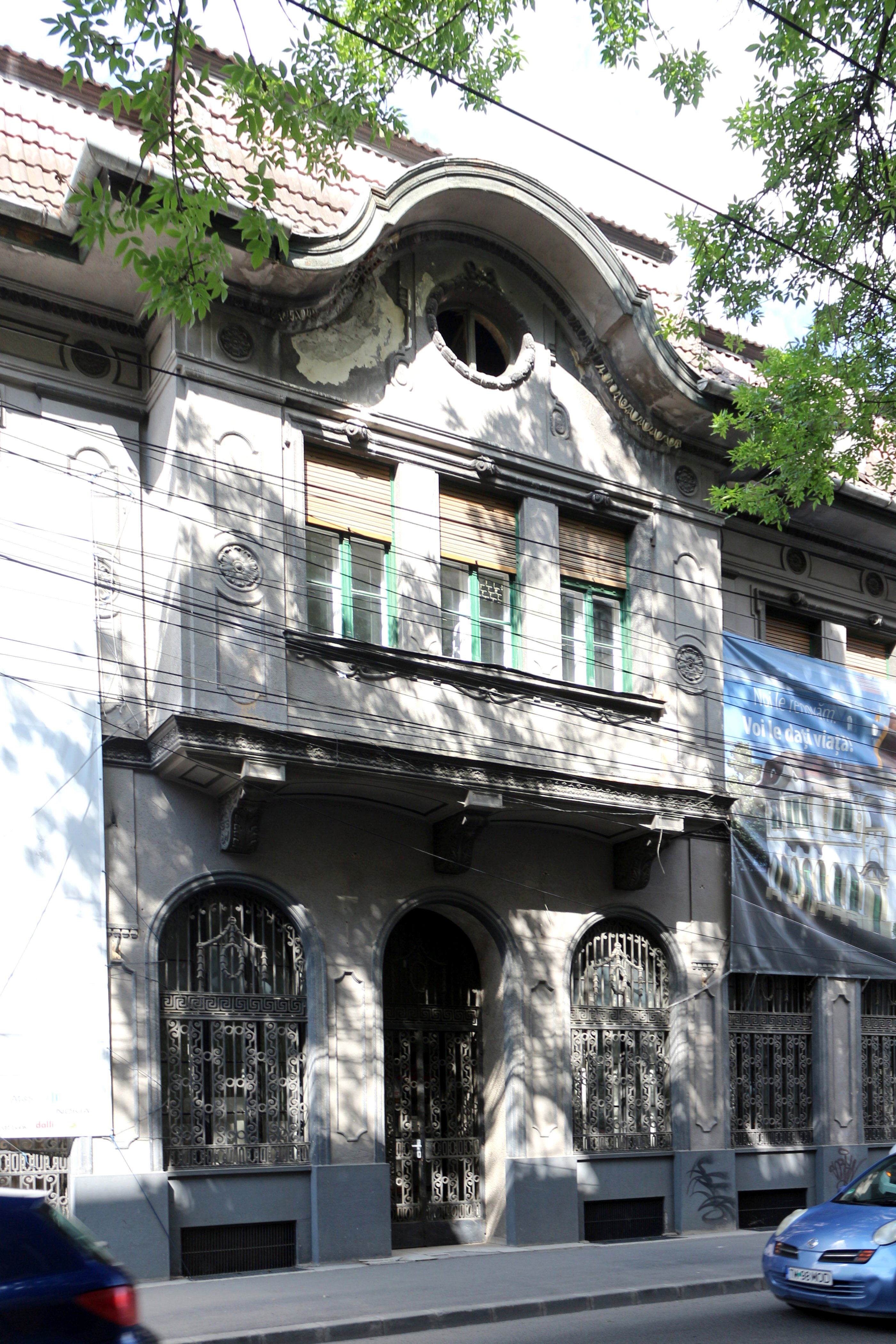 House, Paris St., no. 1, Timișoara, Romania, former House of Scientists.